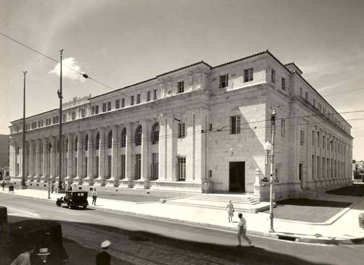 Miami, Florida U.S. Post Office, Court House, and Custom House (1933) Completed in 1933. Architects: Phineas E. Paist and Harold D. Steward Still in use by the United States District Court for the Southern District of Florida. Renamed the David W. Dyer Federal Building and United States Courthouse in 1997.